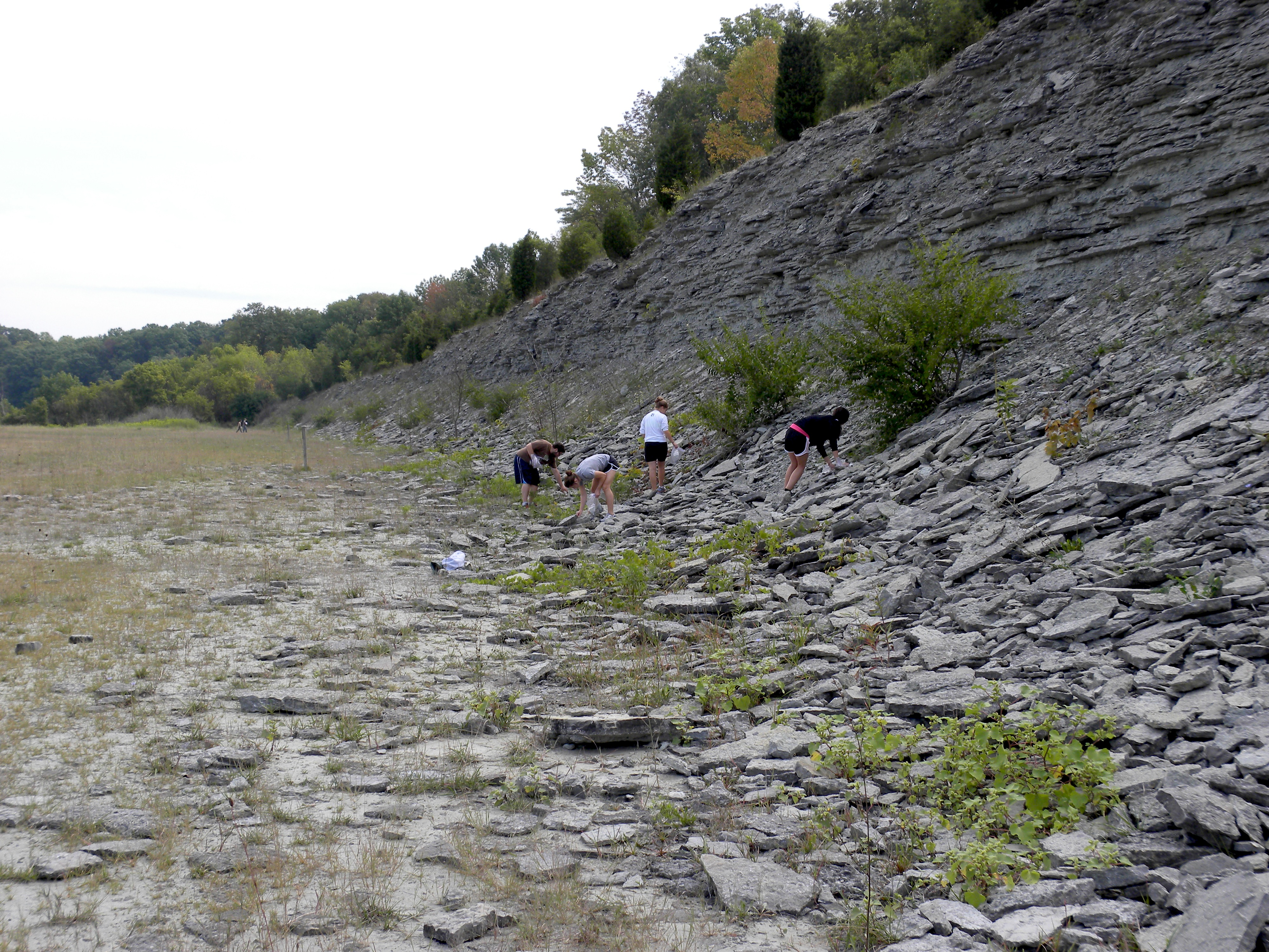 Bull Fork Formation (Richmondian, Upper Ordovician) exposed in Caesar Creek State Park, southern Ohio.